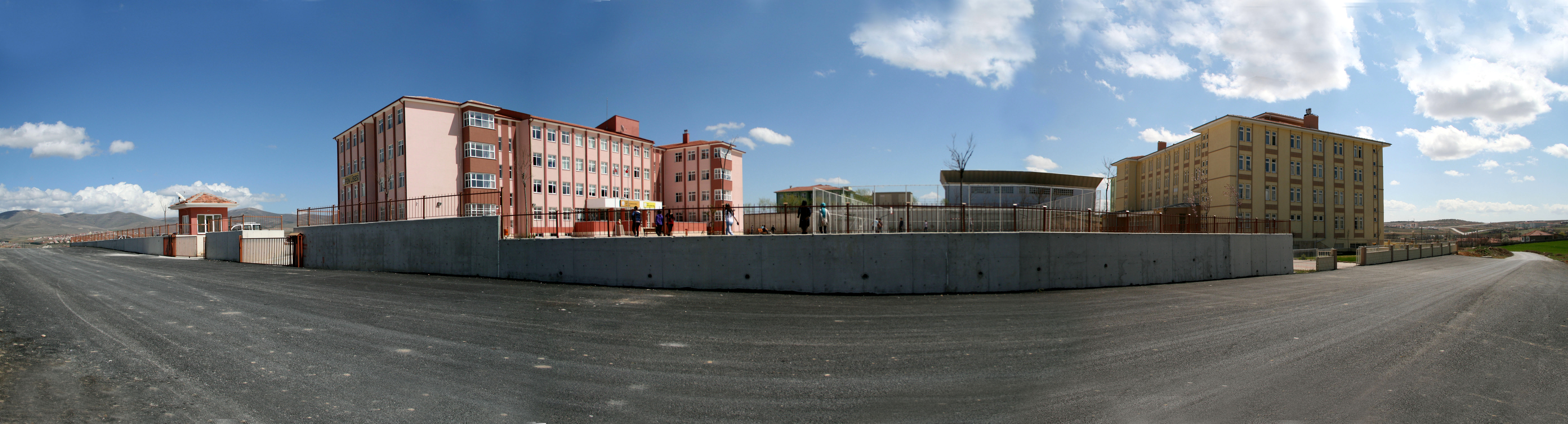 Panoramic view of Kirsehir Science High School